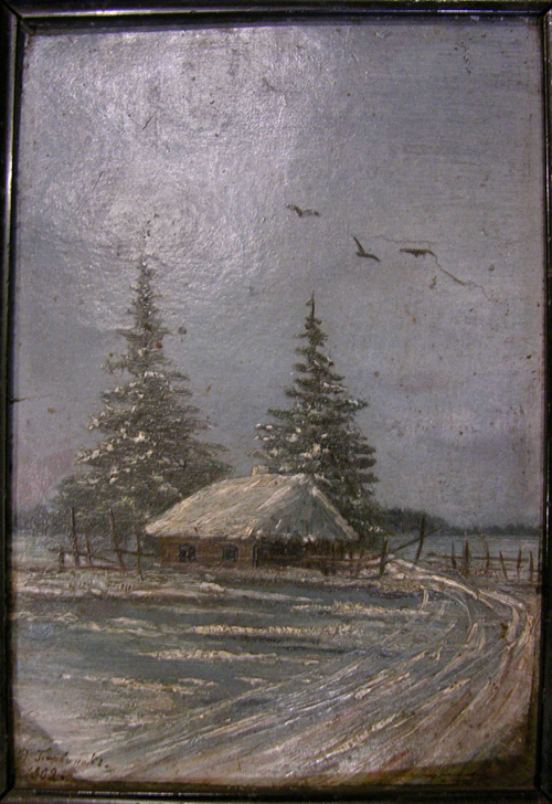 Painting by Volodymyr Barvinok of a remote Ukrainian countryside in a style of impressionism. 1902.